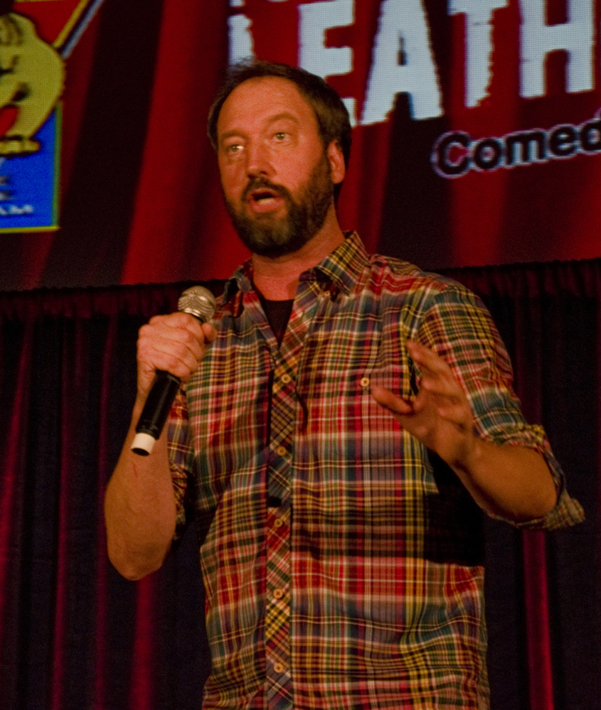 Comedian Tom Green performs stand-up comedy during “For the Leathernecks Comedy and Entertainment Tour III,” at the base theater, Dec. 3, 2013. Green, comedian Mike Epps, rapper Big Mike and performance group Purrfect Angelz, were featured in the tour, which is sponsored by the Single Marine Program at Headquarters Marine Corps. All active-duty service members aboard MCB Hawaii were welcome to watch the performance. (U.S. Marine Corps photo by Kristen Wong)